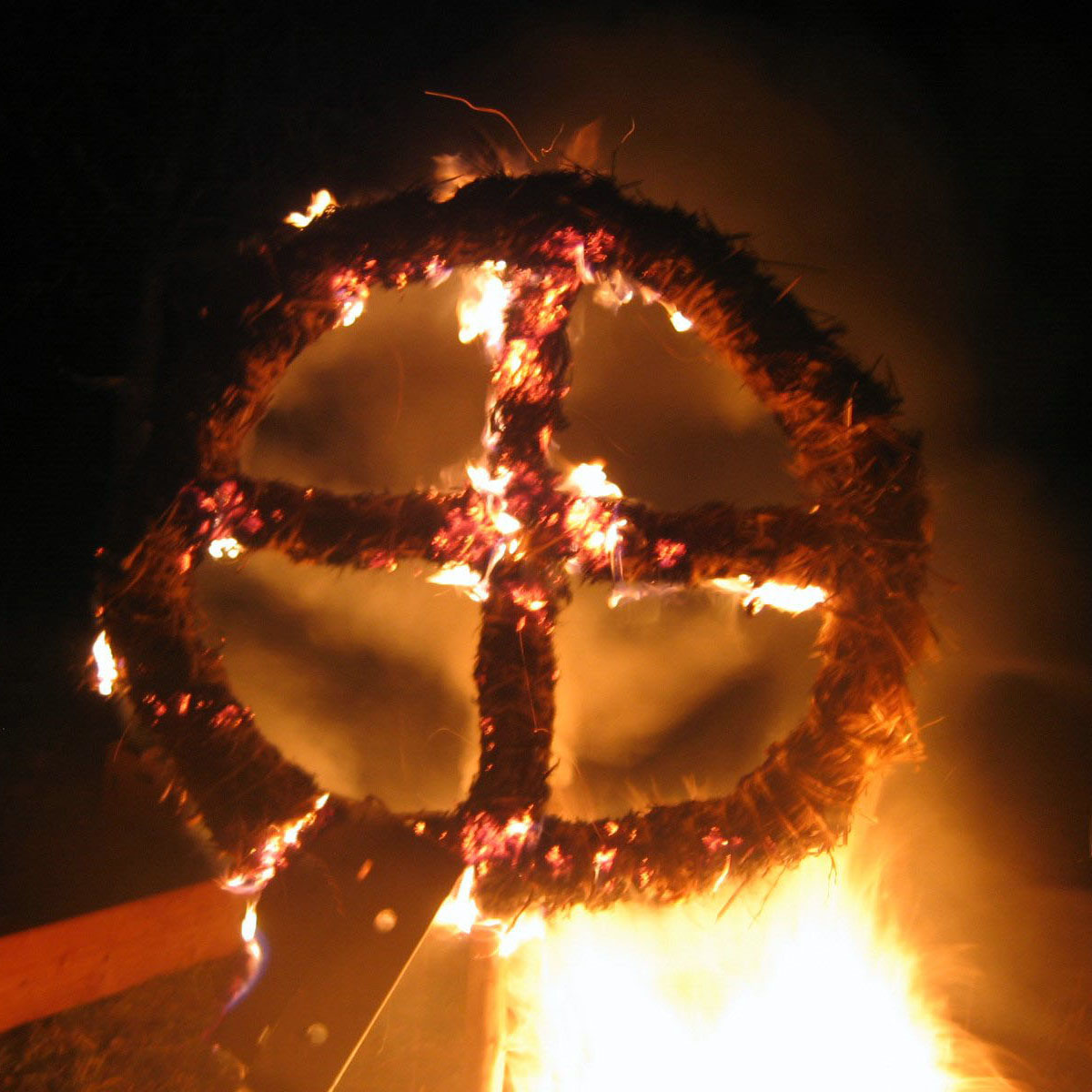 Fire wheel as a symbol depicting the winter solstice. Compare: Amon Amarth (1996): Sorrow Throughout the Nine Worlds (album cover art) Symbol for solstices and equinoxes